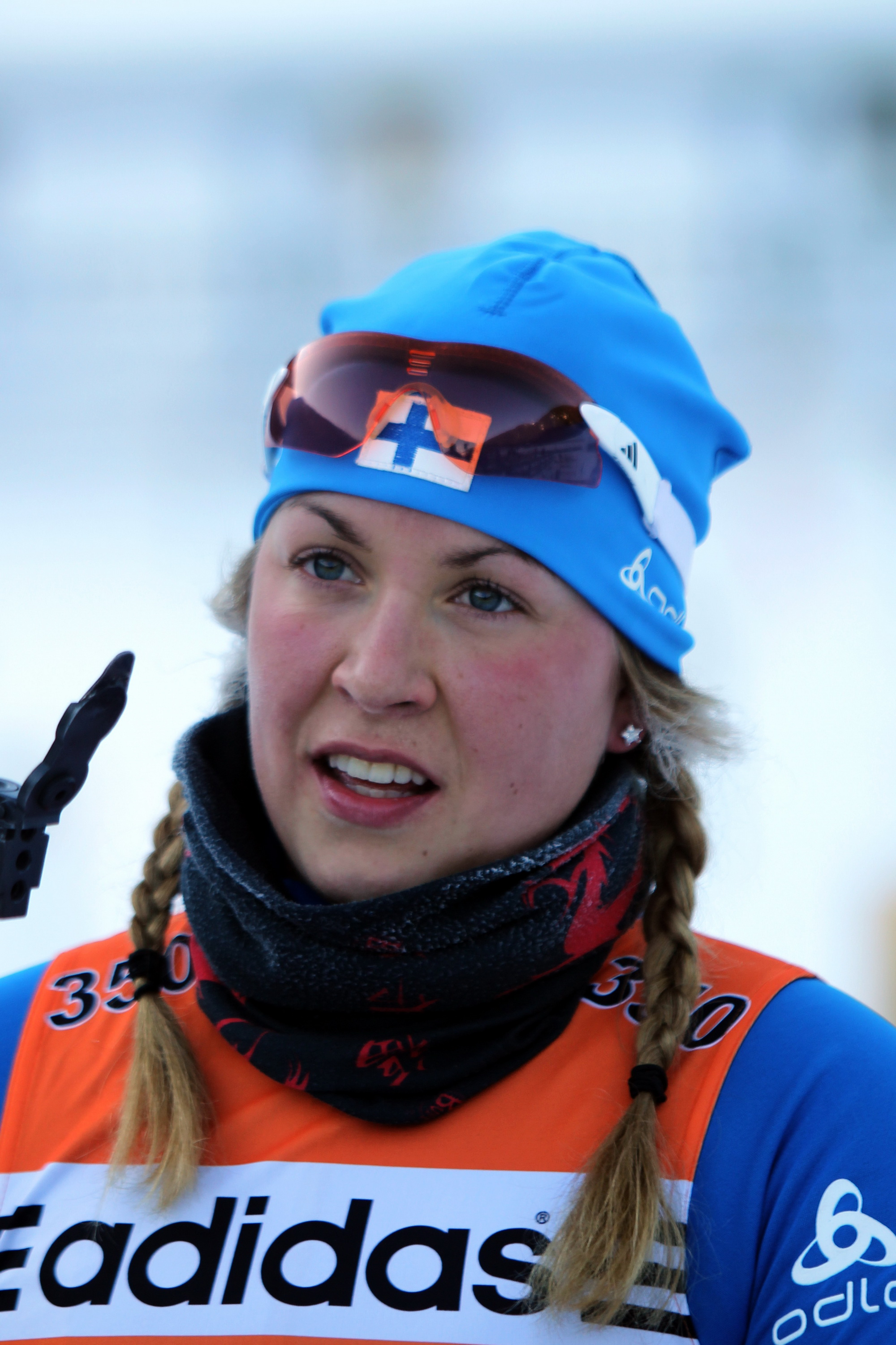 Laura Toivanen during training Obertilliach 2010